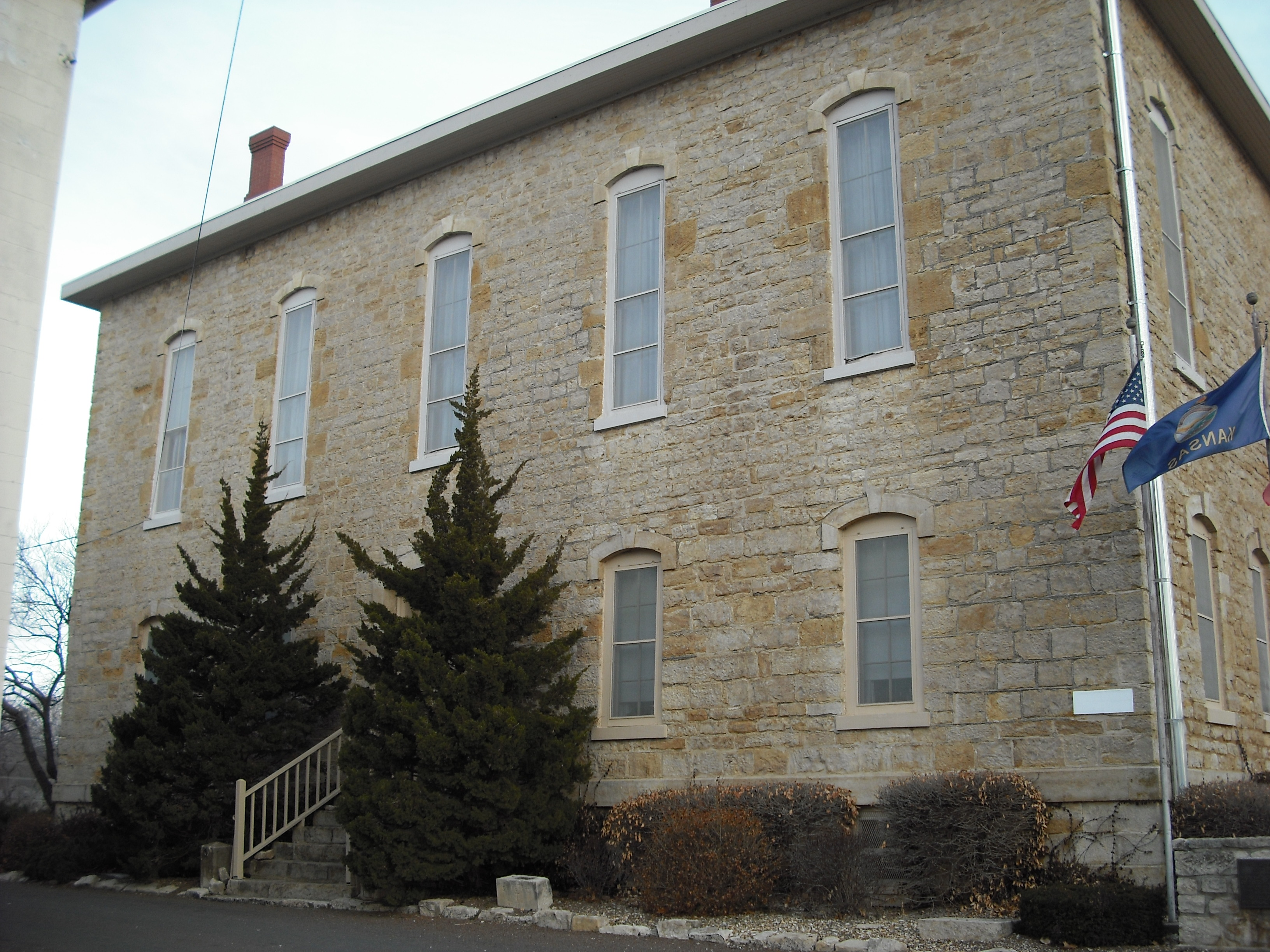 Lane University, built on the foundation of the territorial capital in Lecompton, Kansas. Now used as the Territorial Capital Museum. On NRHP.